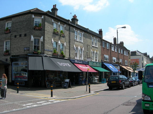 Northcote Road SW11 (4). This is at the junction of Mallinson Road. The area has become extremely gentrified in the last 25 years or so. The shops reflect this, the ones near here include delicatessens, specialist quality bakers, boutiques and smart cafes or coffee bars. This is looking towards Balham, the other picture taken nearby is looking the opposite way. 187099